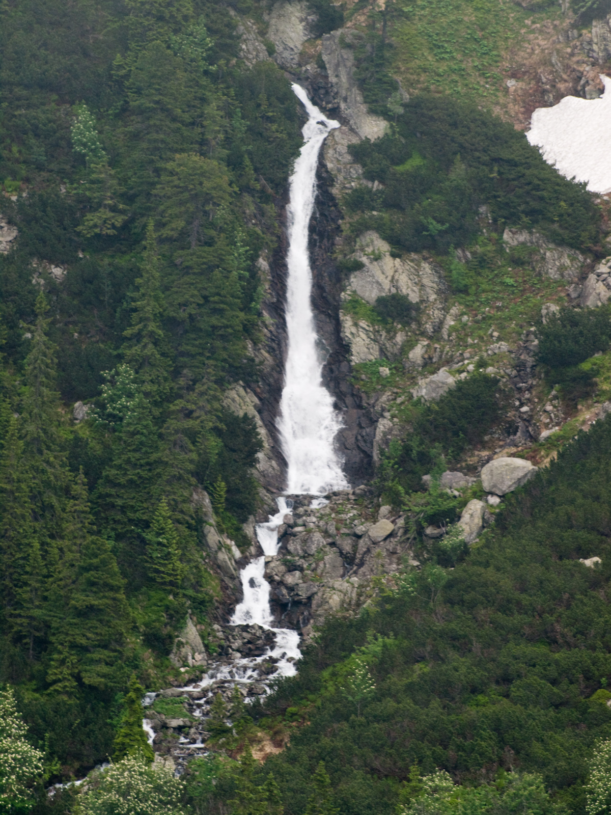 The lower part of Vajanský's Waterfall in Temnosmrečinská Valley.